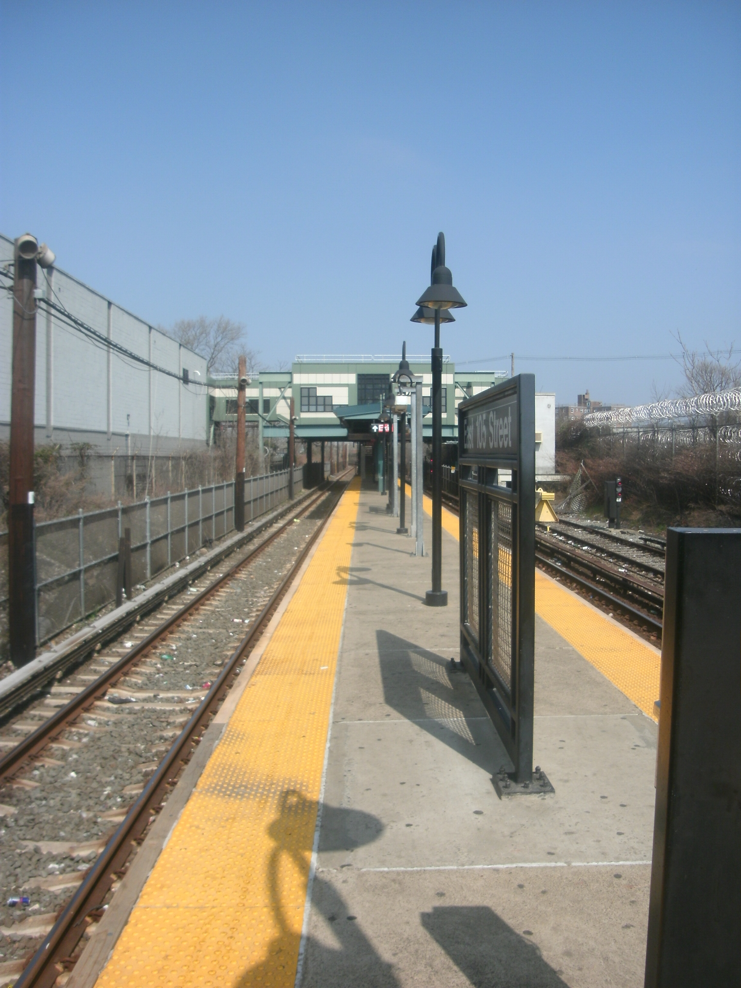 East 105th Street station facing northbound towards the station house. One of the station's signs protrude near the foreground.